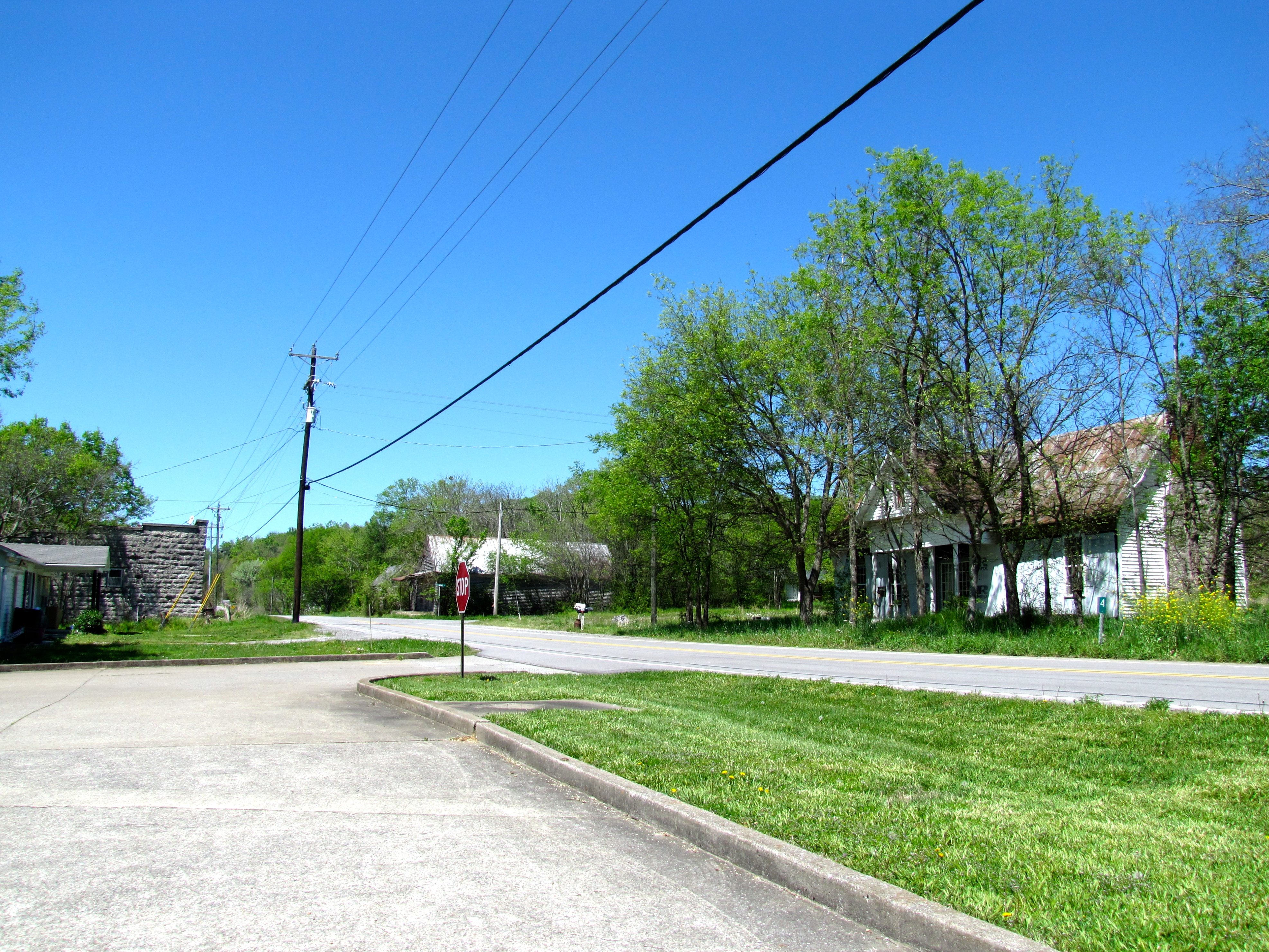 View along State Route 64 in Bradyville, Tennessee, United States.